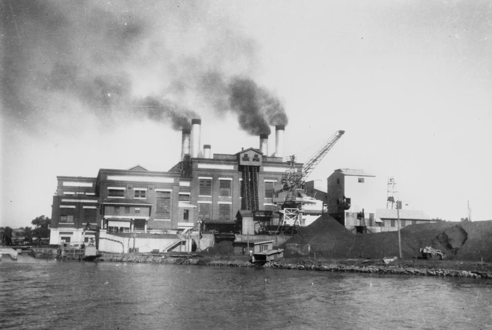 New Farm Power House, as seen from the Brisbane River, ca. 1950.